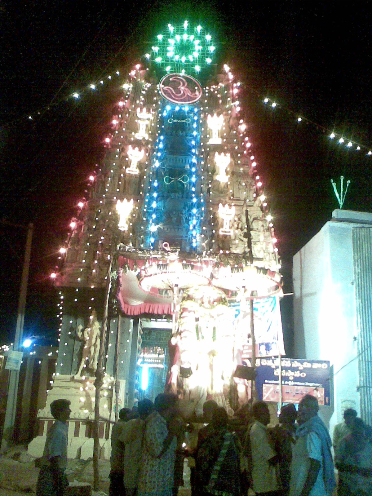 Garuda seva Vinjamur